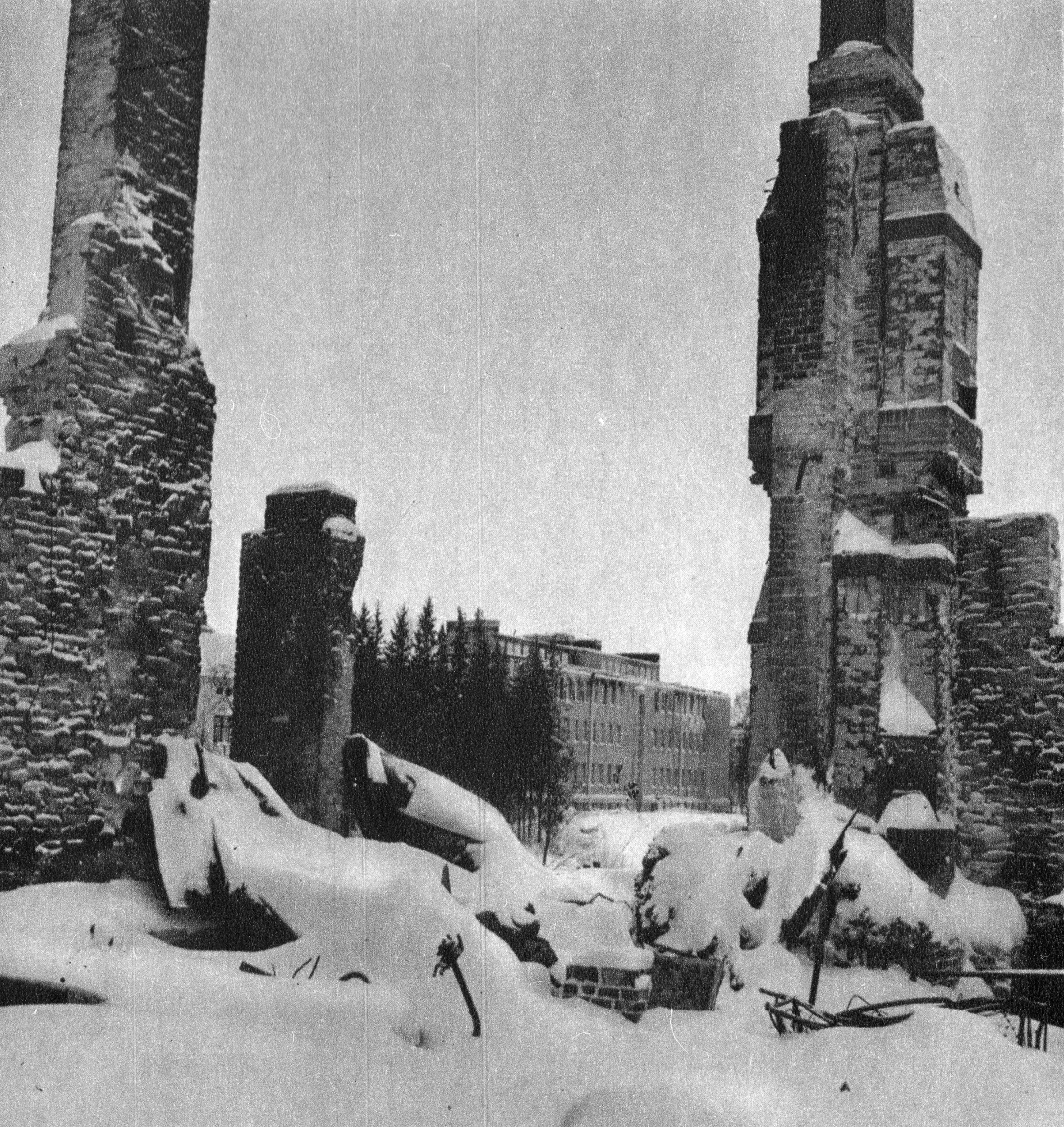 Bombing damages of the sovjet air raid of January 21st 1940 in Oulu. The Ainola kindergarten in the foreground was burned down and the library and museum building in the background was damaged.